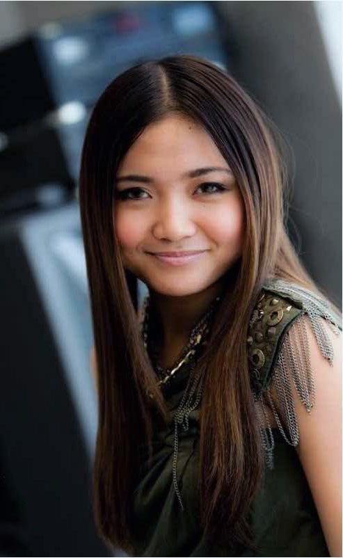 Charice at Toronto Eaton Centre